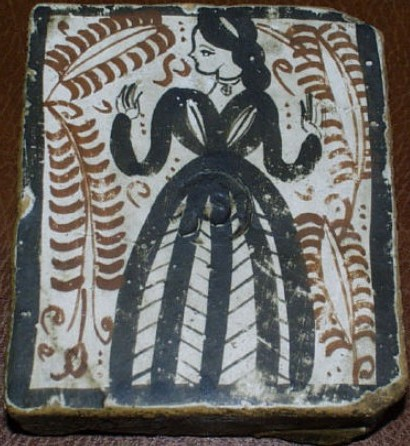 Representative of the pottery of Paterna, the socarrat and similar pieces have been documented also in Benetússer, Manises and many other places in Valencia, Aragon, Catalonia and the Balearic Islands.